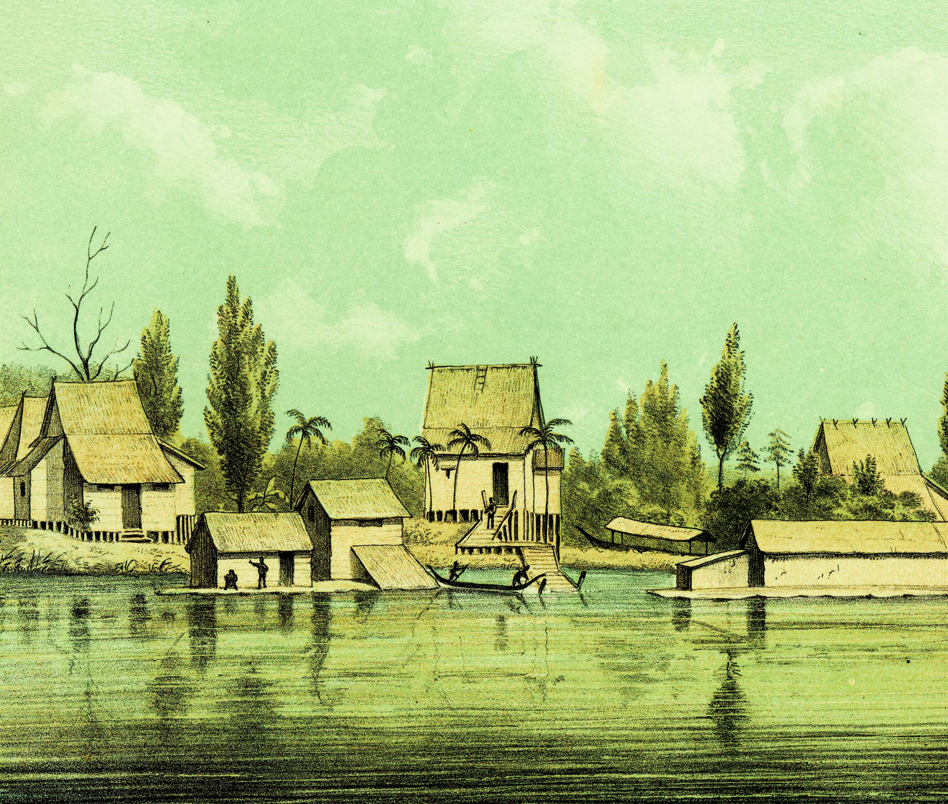 Rivier bij Bandjermaisn